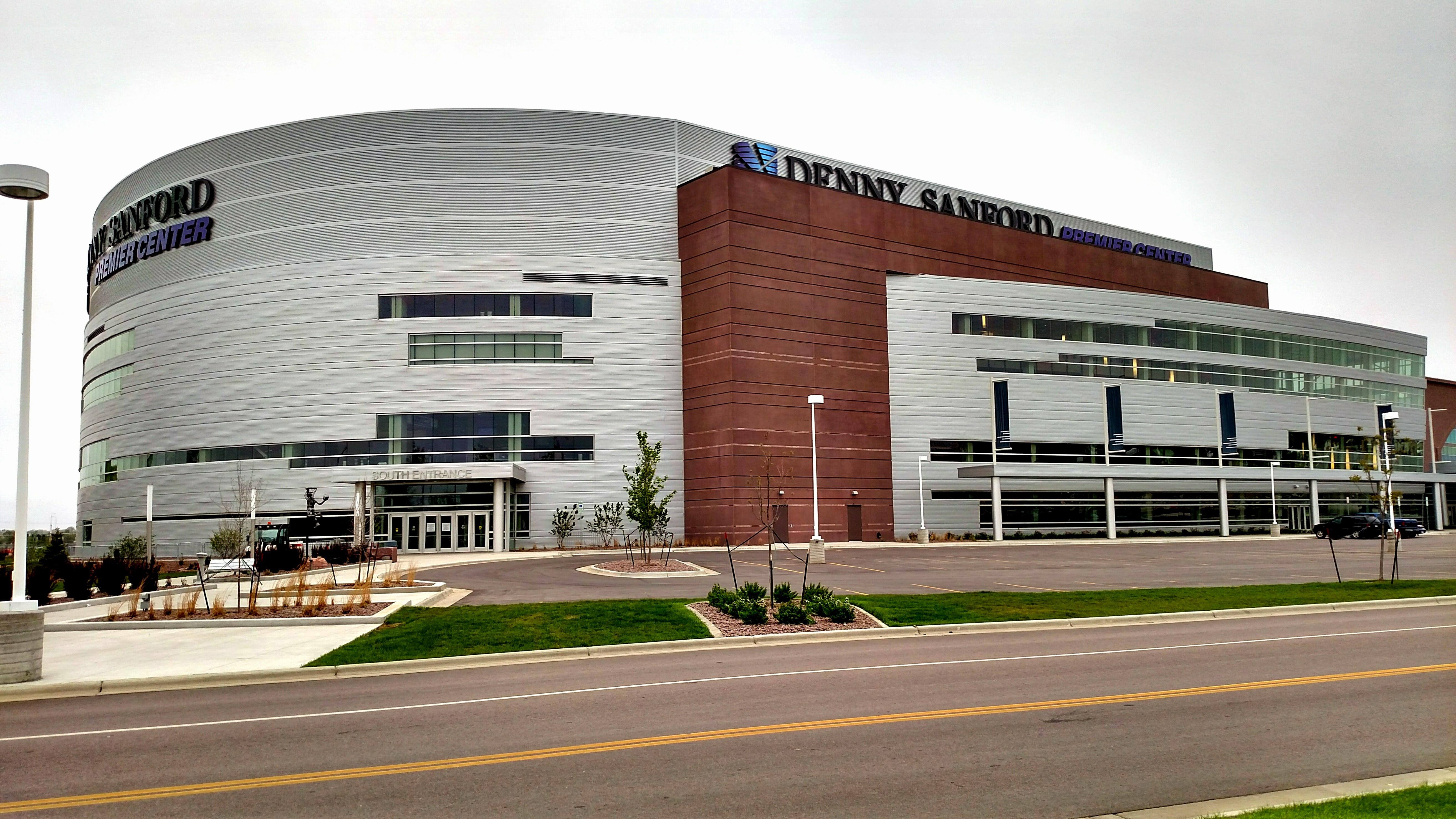 Denny Sanford Premier Center in Sioux Falls, SD on 05/11/15